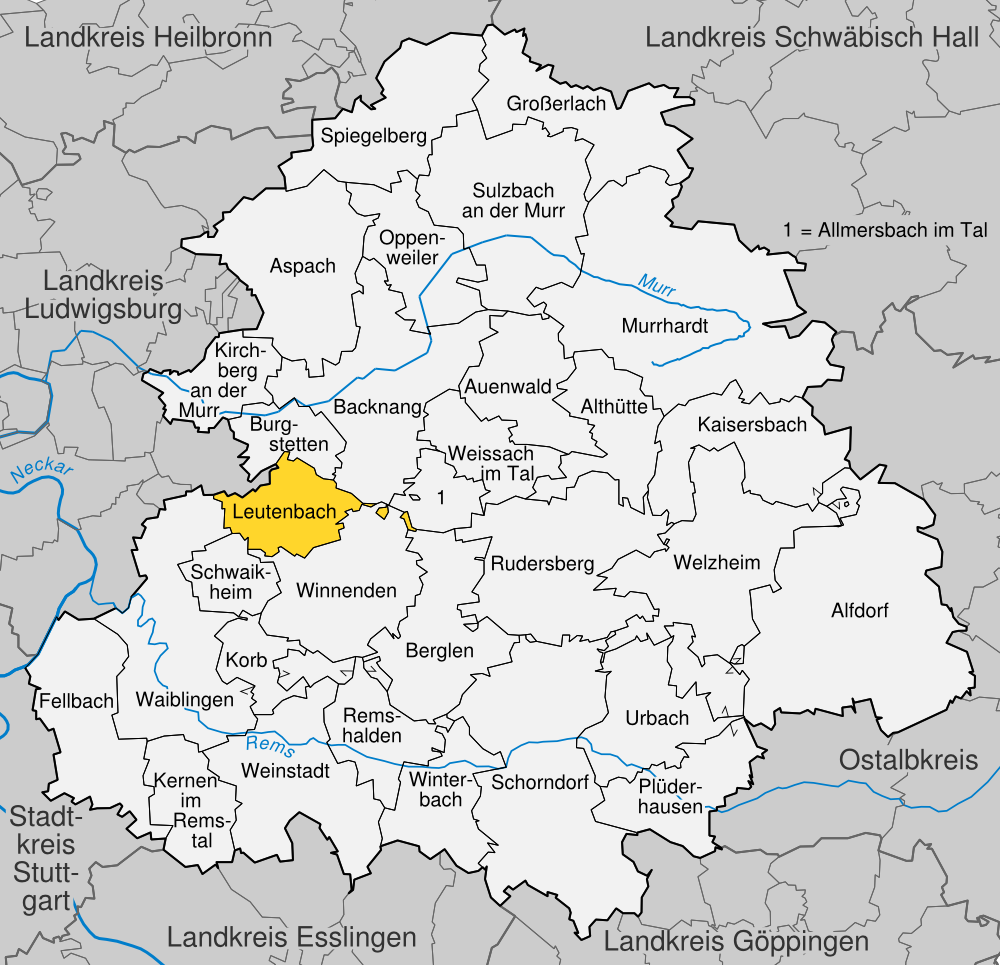 position of Leutenbach within the Rems-Murr-Kreis, Baden-Württemberg, Germany